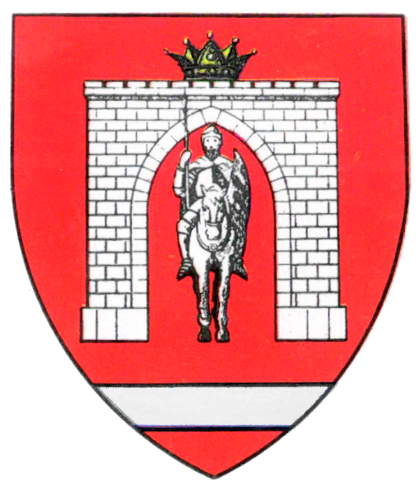 Interwar coat of arms of Făgăraș County, Kingdom of Romania.